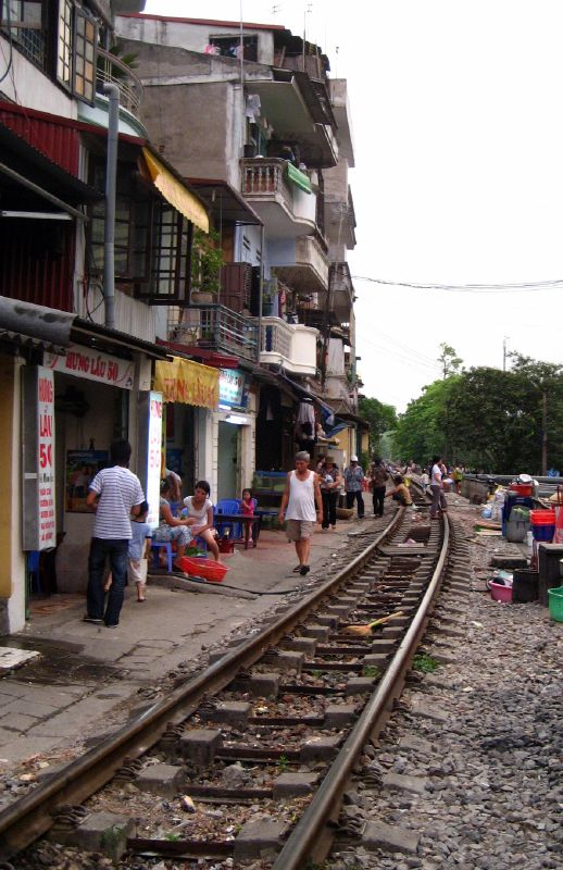 The trains must not come very often or very fast beacuse kids were playing on the tracks and people were sitting on them socialising!